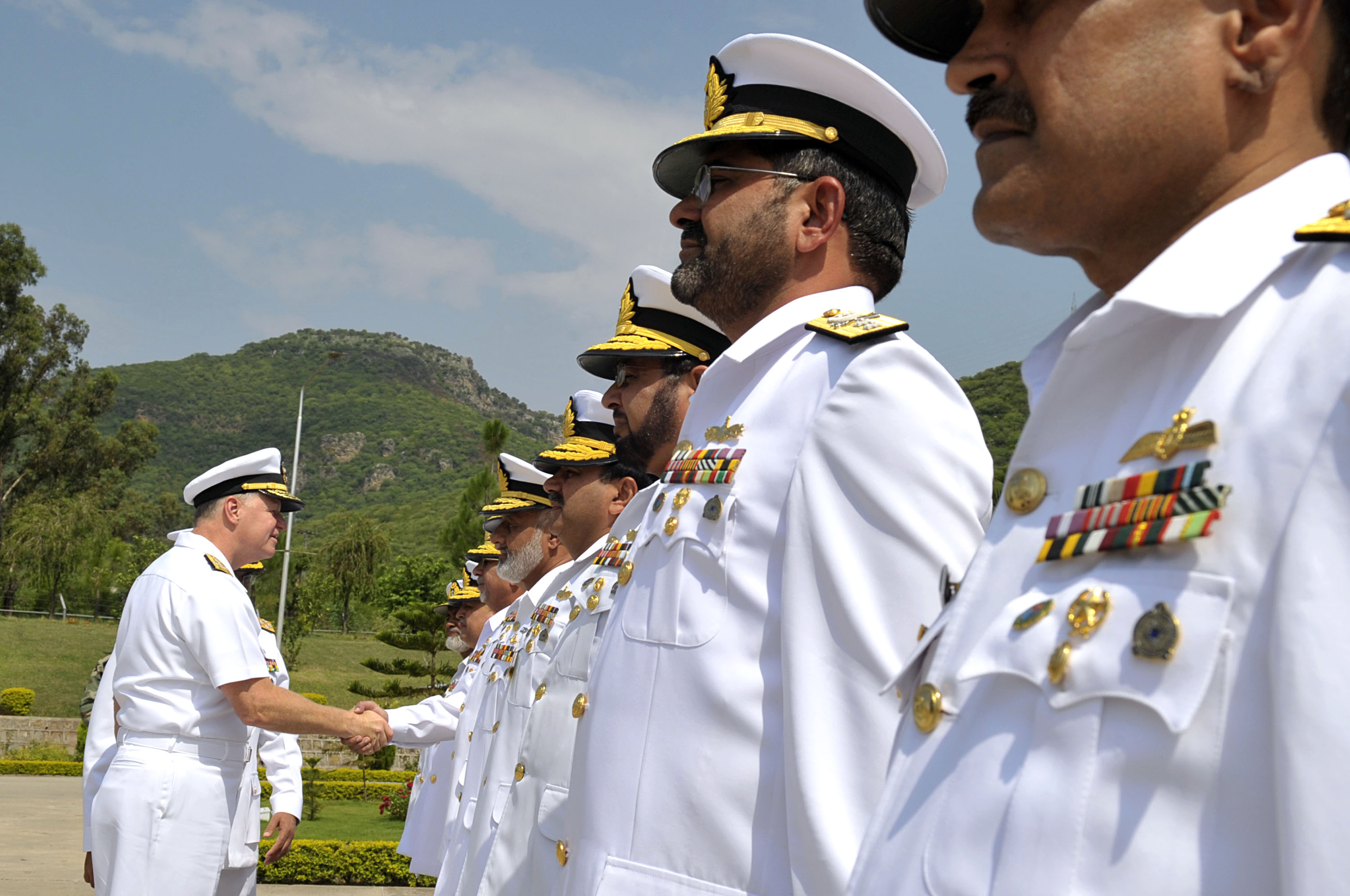 ISLAMABAD (Aug. 20, 2009) Chief of Naval Operations (CNO) Adm. Gary Roughead meets senior leadership of the Pakistan Navy at the conclusion of a welcoming ceremony to Pakistan Naval Headquarters. Roughead met with Pakistan Chief of Naval Staff Adm. Noman Bashir in Islamabad to strengthen maritime partnerships. (U.S. Navy photo by Mass Communication Specialist 1st Class Tiffini Jones Vanderwyst/Released)